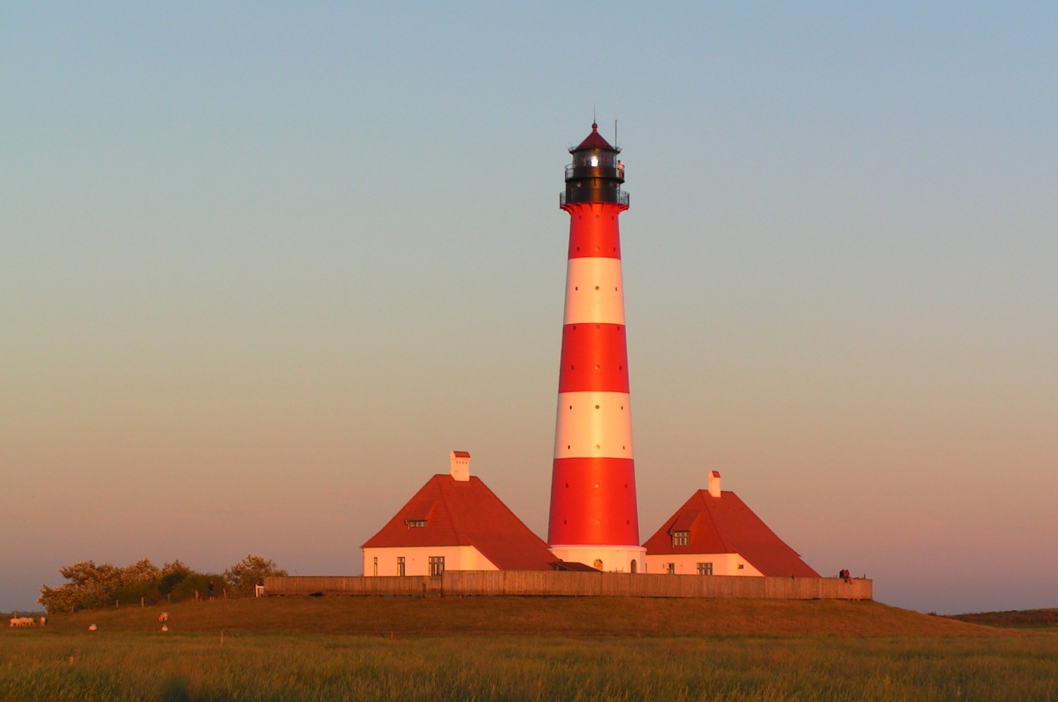 Lighthouse Westerhever, Eiderstedt, Germany